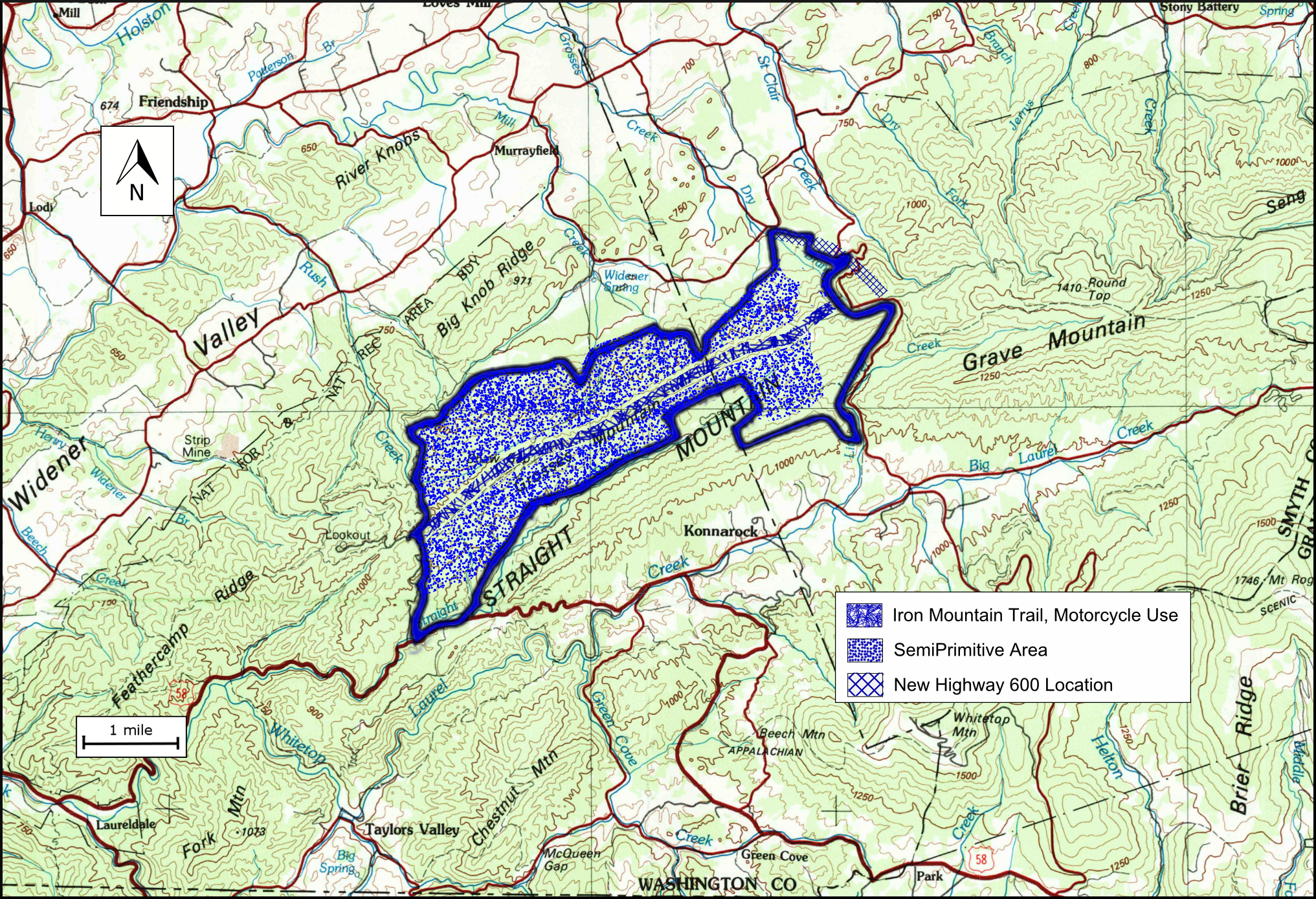 Boundary of the Shaw Gap wildland in the Jefferson National Forest as identified by the Wilderness Society